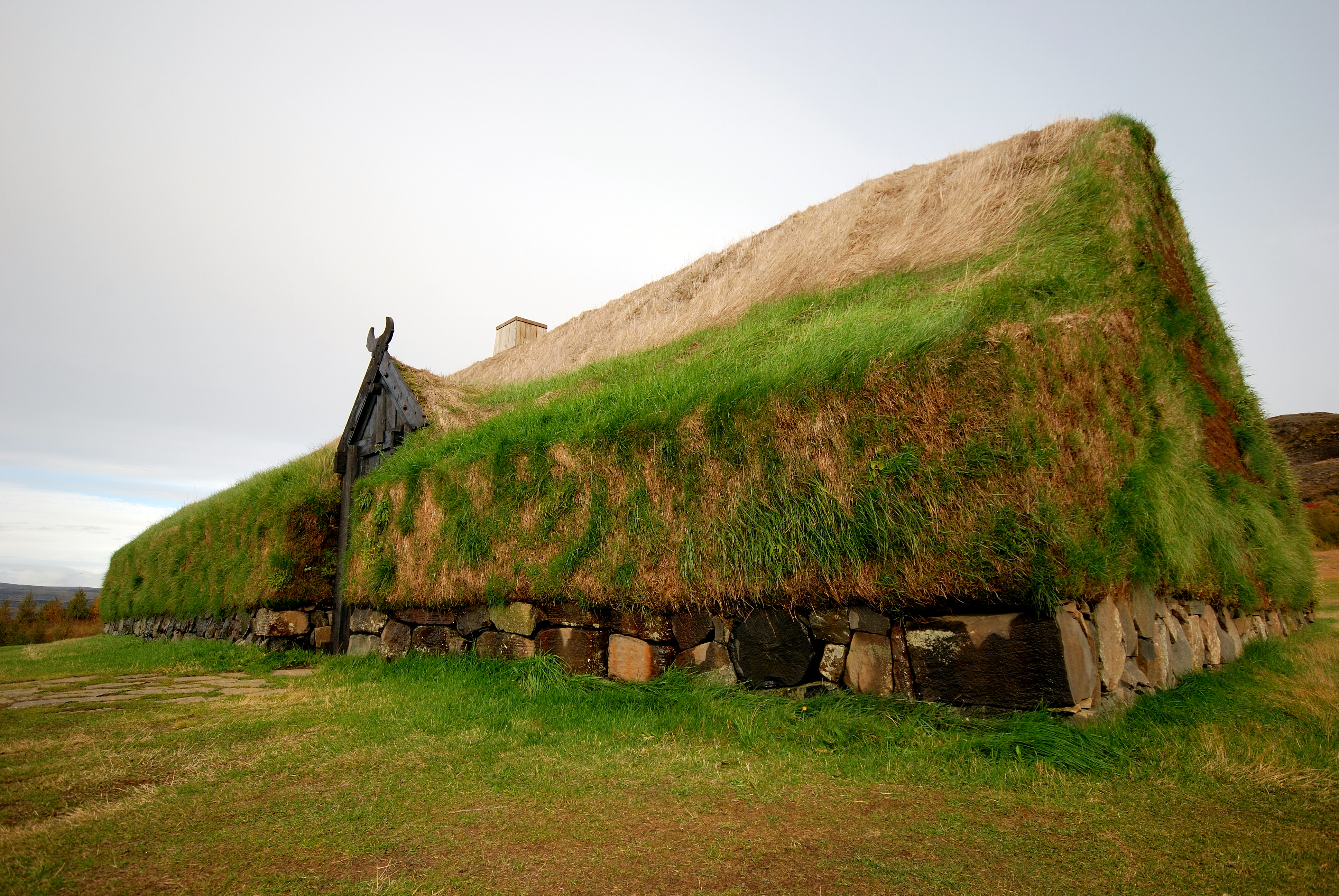 A photograph of Þjóðveldisbærinn in Iceland, a reconstruction of the Viking Longhouse Stöng. The building would have been the center of the farm of a Viking chief in middle ages and would have been used to store food. This replica adheres as closely as possible to the original way of building these longhouses, with a basic wood frame, stone base and turf walls/roof.